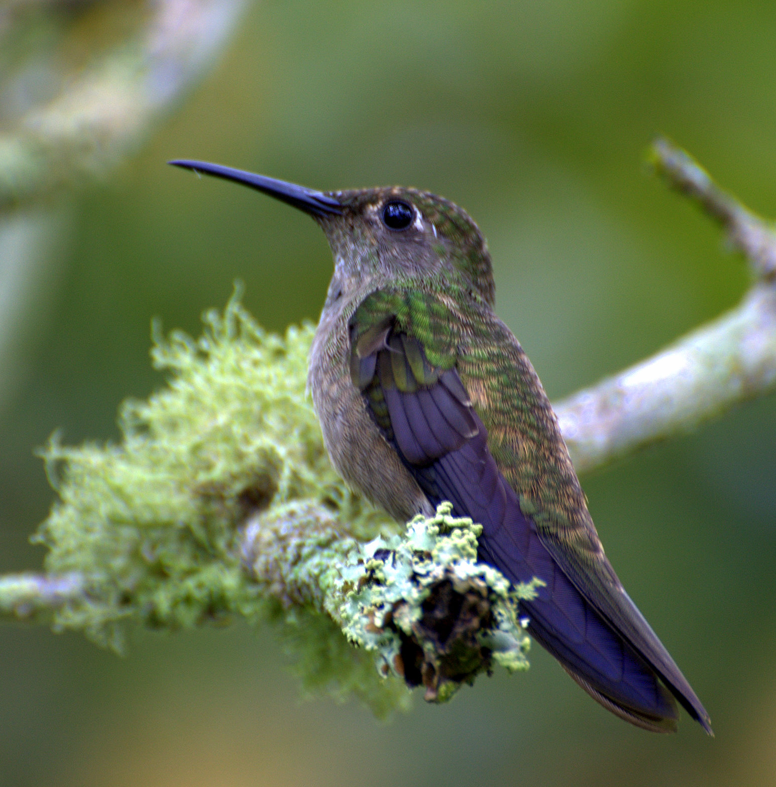 Aphantochroa cirrochloris near the river Ribeira de Iguape (near the city of Registro, São Paulo state).